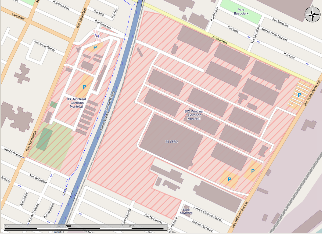 Open Street Map showing CFB Montreal. Created in the Marble program, with cropping done in GIMP.